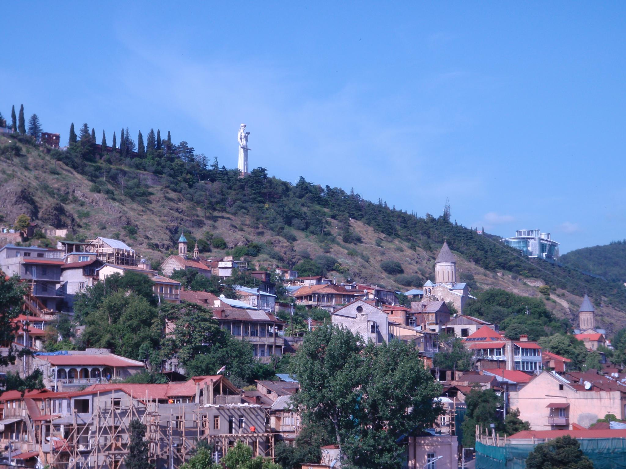 The Armenian Quarter of Old Tbilisi, showing three Armenian churches. From left to right, they are: Church of Saint George (1753) Holy Mother of God Church of Bethlehem (18th c.) Church of Saint Stepanos of the Holy Virgins (14th-19th century)